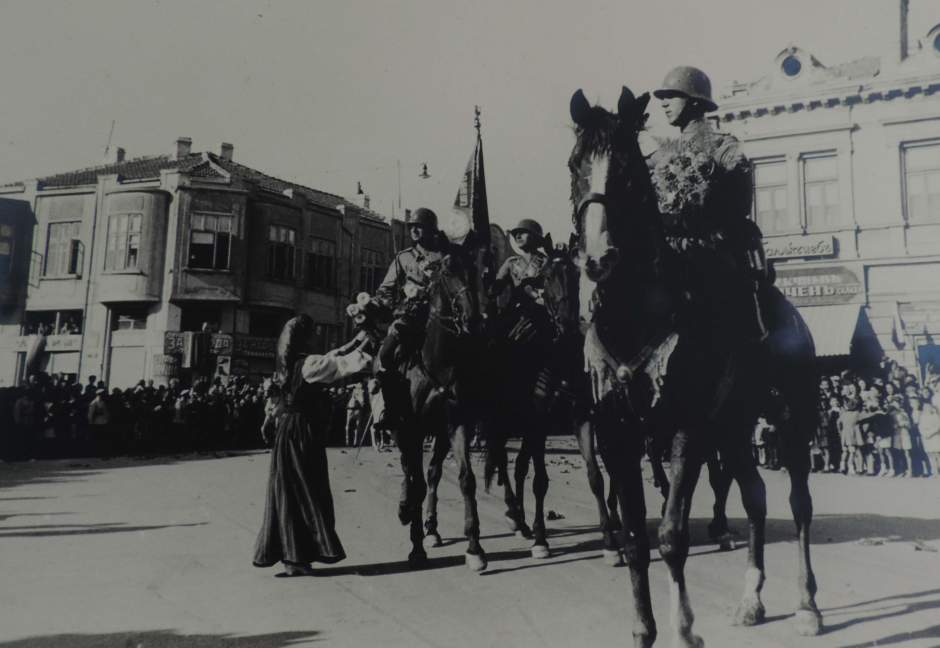 Photo of South Dobruja, 1940.